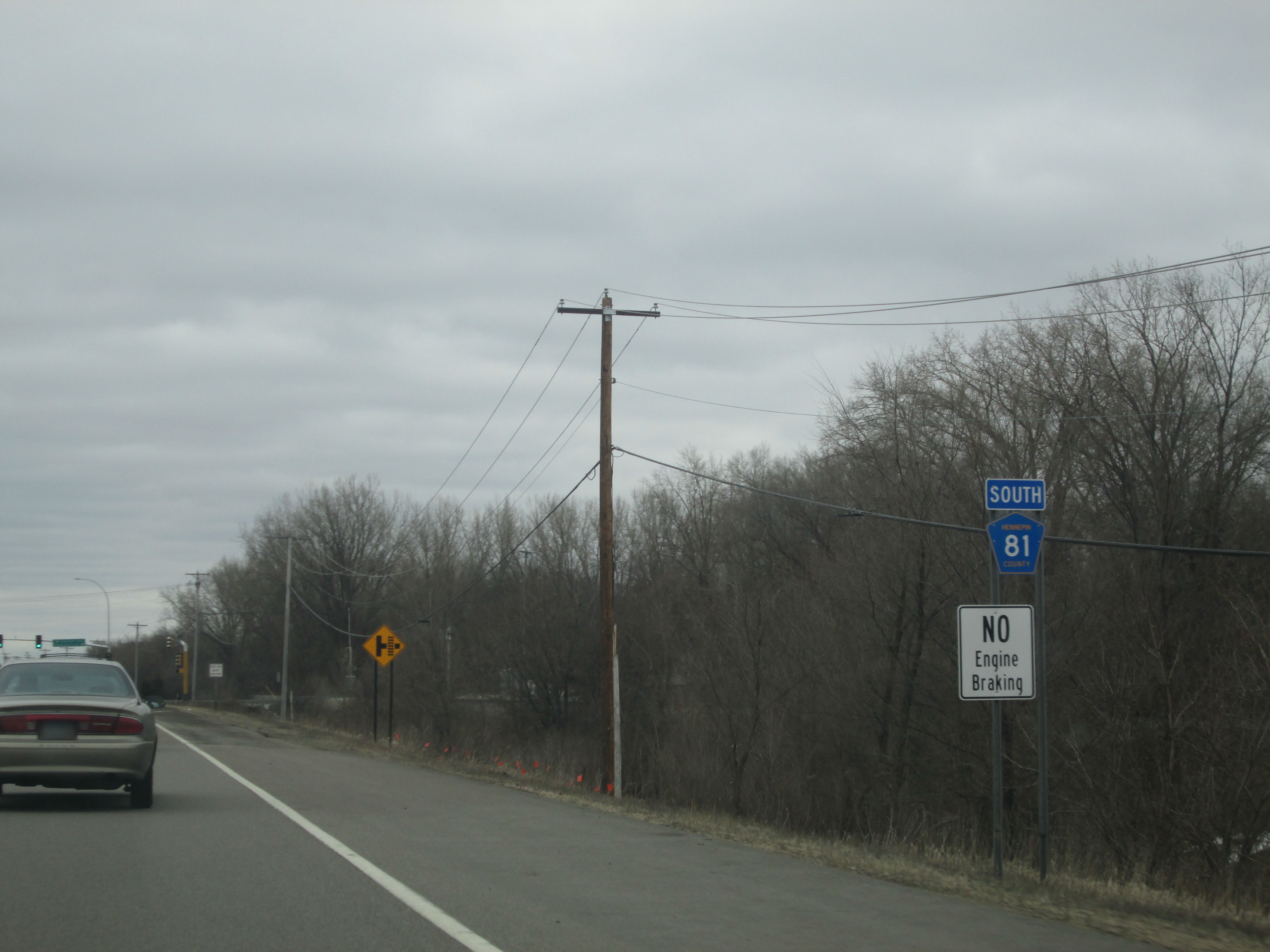 Hennepin CSAH 81 in Brooklyn Park, Minnesota. The intersection shown is with Green Haven Drive and Lakeland Avenue, near US 169.